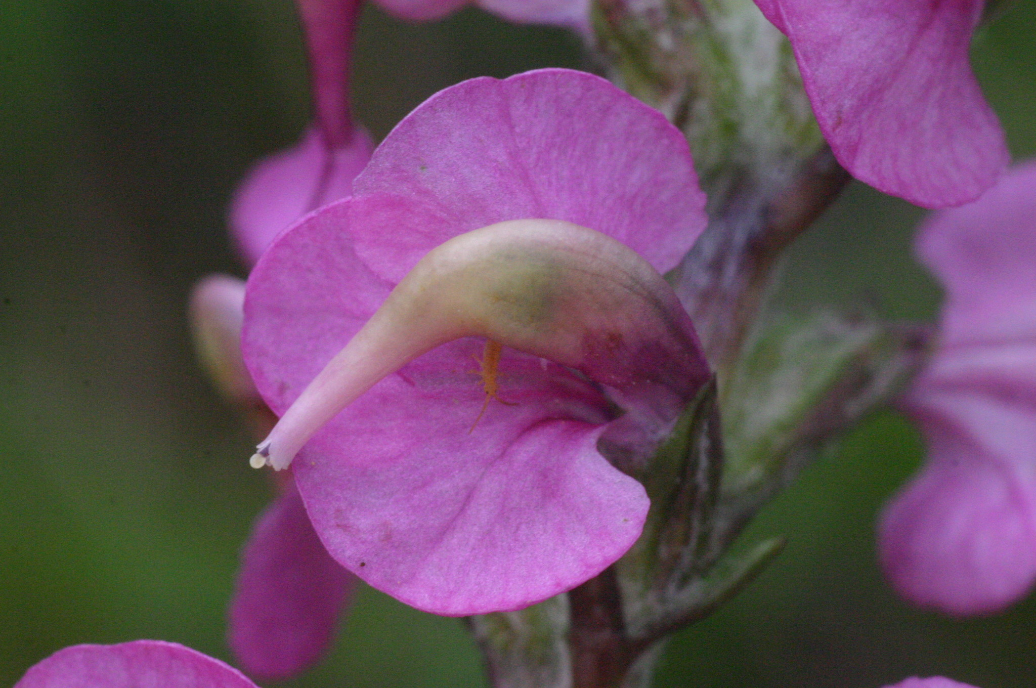 Pedicularis rostratospicata ssp. rostratospicata